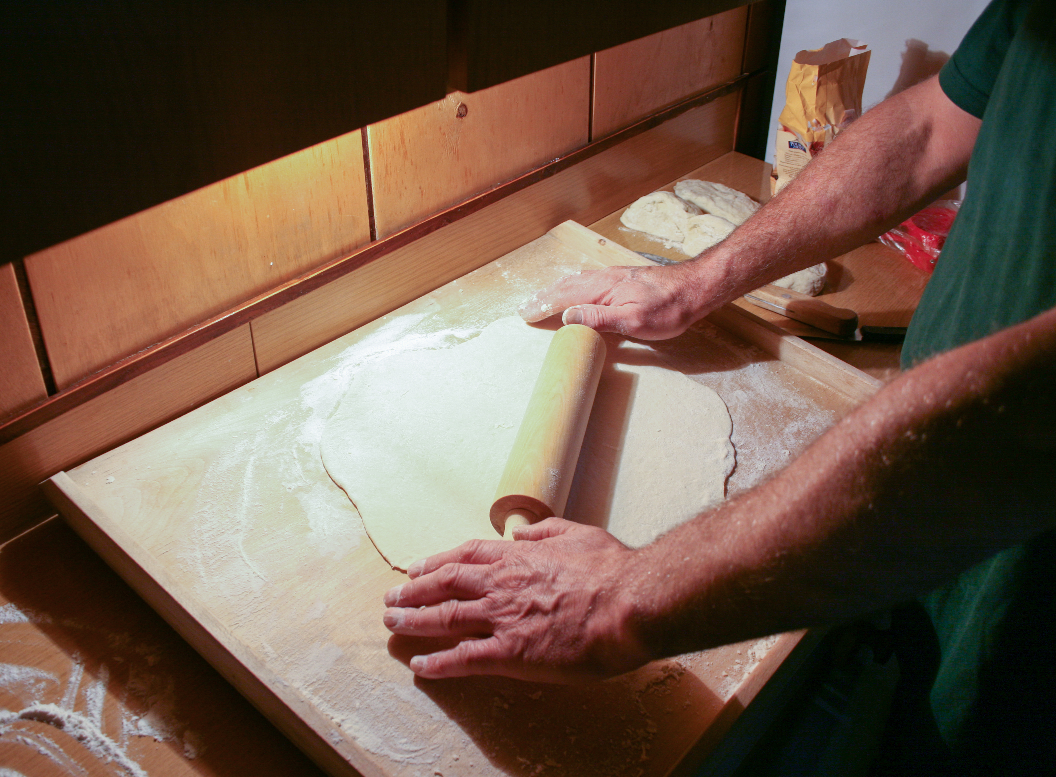 Pierogi, Gniezno, Poland